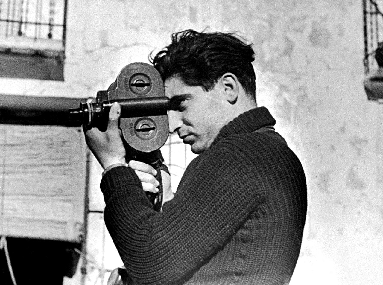 Photographer Robert Capa during the Spanish civil war, May 1937. Photo by Gerda Taro.